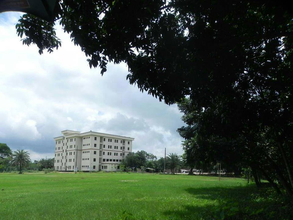 it is the agnibeena hall of jkkniu